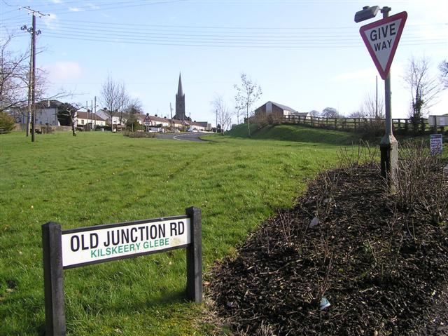 Old Junction Road, Kilskeery It is located at Kilskeery Glebe